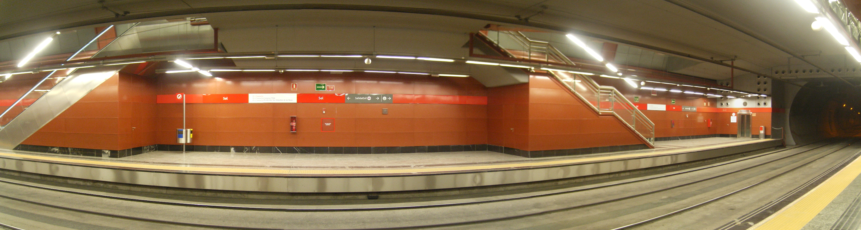 Panoramic (made of with Hugin) of station Sol for train.